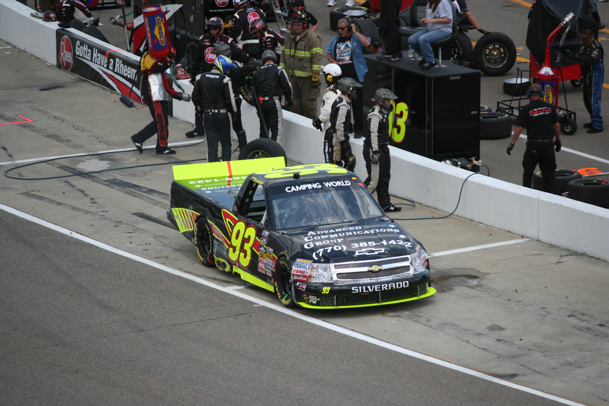 Chris Cockrum, driving the No. 93 Chevy Silverado for RSS Racing, leaves the pits during the 2012 Good Sam Roadside Assistance Carolina 200 at Rockingham Speedway.